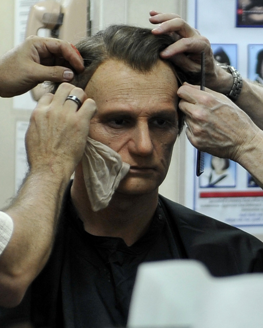 Benjamin Walker, who plays the titular role in the film Abraham Lincoln: Vampire Hunter gets into character before touring USS Abraham Lincoln.